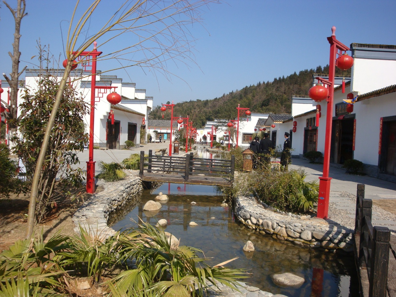 Tian gong kai wu yuan xiao xi